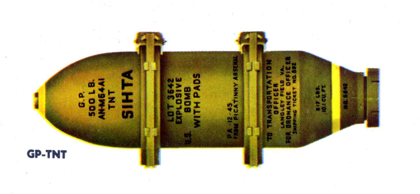 US BOMB, 500 Lb, GP ( 243 kg, containing 124 kg Amatol)